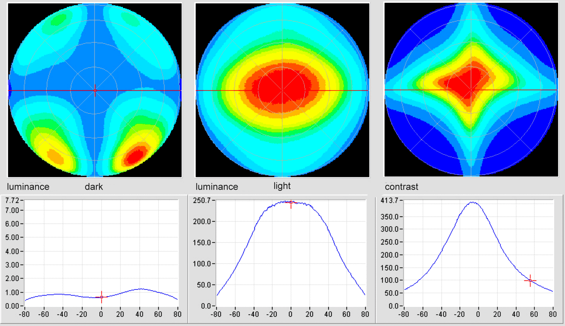 Luminance and contrast versus viewing direction in a polar coordinate system. The left column shows the directional luminance distribution of the dark state of the display (IPS LCD), the center column shows the bright state and the right column shows the (luminance) contrast (ratio) resulting from the preceeding two luminance distributions. The value is coded by (pseudo) colors. The graphs below the polar coordinate systems each show a cross section in the horizontal plane and indicate the values for luminance and for the contrast. Each borderline between two (shades of) colors represents a line of constant value, in the case of contrast an iso-contrast (contour) line. Note, that "iso" is used in the meaning of "equal", it does NOT establish a relation to the International Organization for Standardization, ISO. Measurements were carried out with a ConoScope.